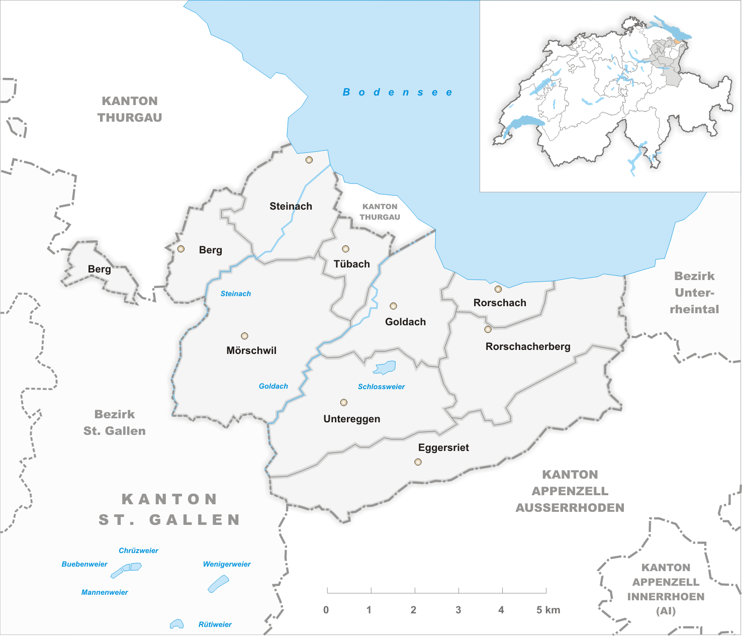 Municipalities in the district of Rorschach until 2002 Map drawn by Tschubby